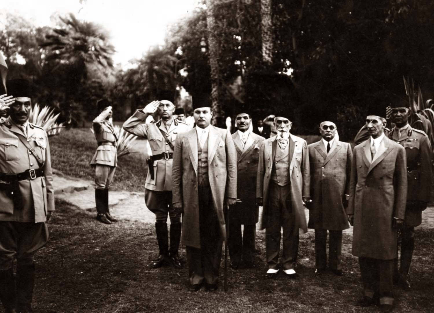 King Farouk I of Egypt (center) next to Prince Muhammad Ali Tawfiq (the man with a white beard) and several pashas and royal guards.